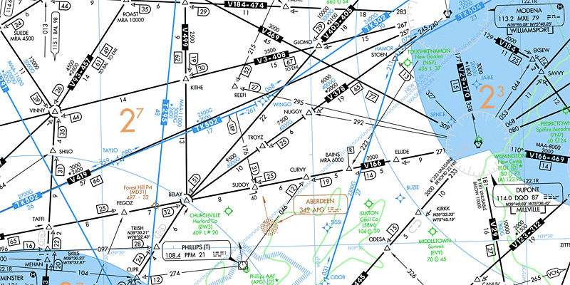 Examples of elements Instrument Flight Rules air navigation charts. We can see smaller airports in green (Churchville, Elkton), VOR stations as black hexagons (PPM, DQO, MXE), NDB station as brown spot (APG), VORNAV intersections, fixes as black triangles (FEGOZ, BELAY, SAVVY), RNAV fixes as blue stars (SISSI, BUZIE, WINGO), VORNAV airways in black (V166, V499), RNAV airways in blue (TK502, T295), minimum safe altitudes in brown (2700, 2300 ft MSL), approach areas (TMAs) in blue, holding patterns as grey ovals (TAFFI, TRISH, KIRKK), and other data.